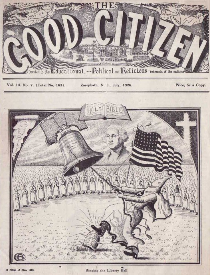 Source: The Good Citizen published in July, 1926 by the Pillar of Fire Church. Copyright was not renewed.